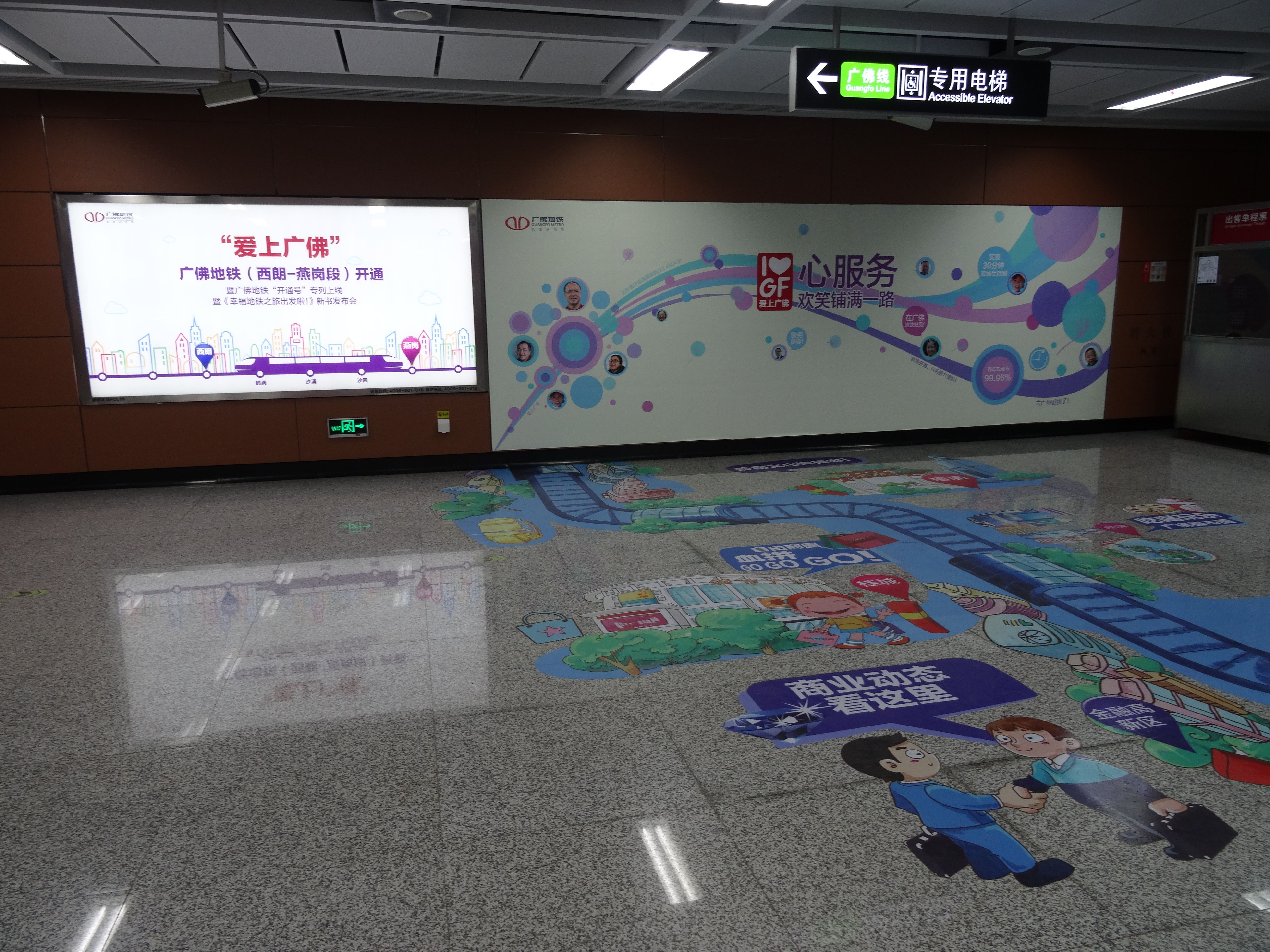 開通初期，車站地面關於綫路開通的宣傳地畫